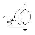 Simplified schematic of an I2L inverter.